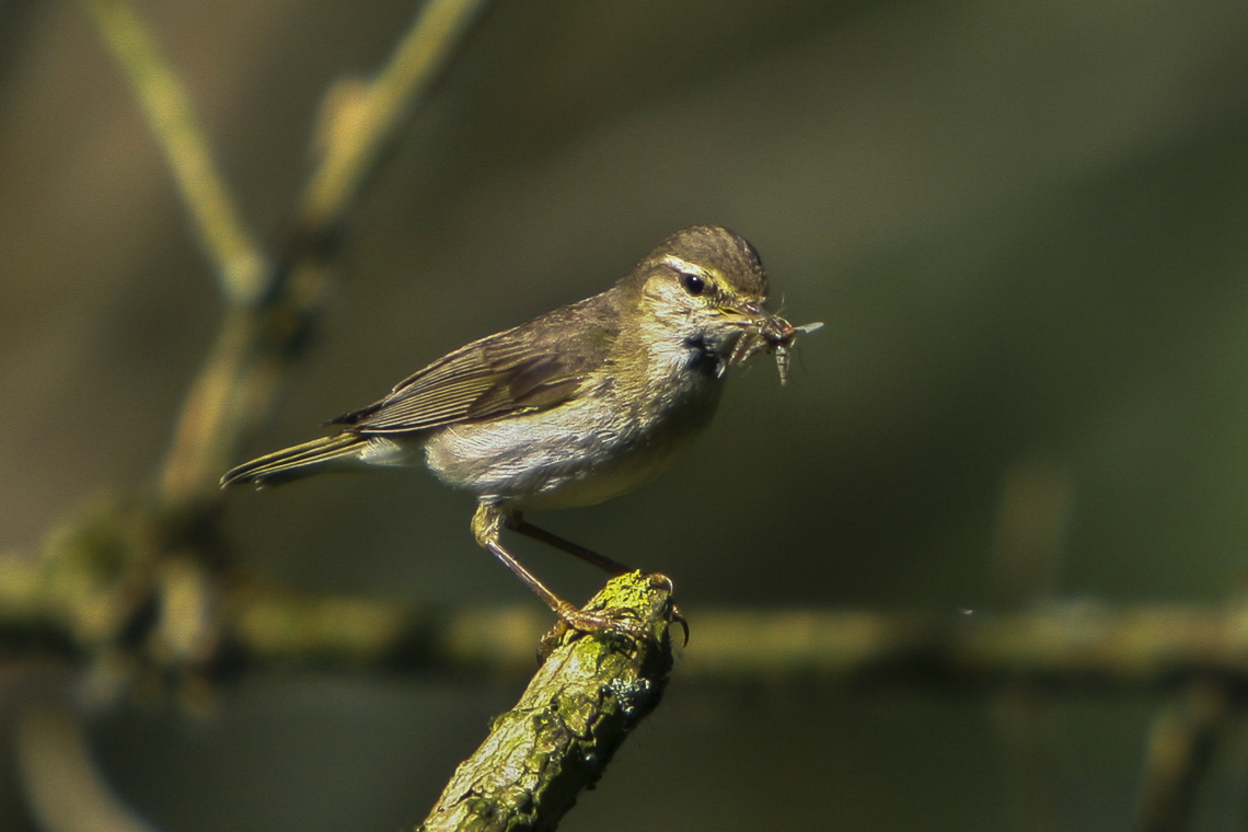 Willow Warbler - Netherlands -06-05 014 (4)